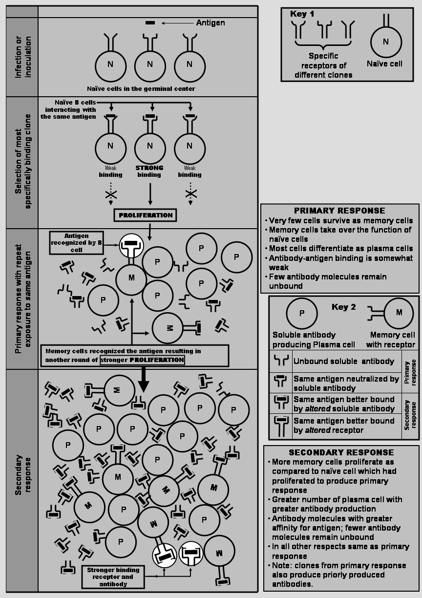 Selection of a clone of B cells that most selectively binds with an antigen followed by proliferation and production of soluble antibodies by differentiated plasma cells.